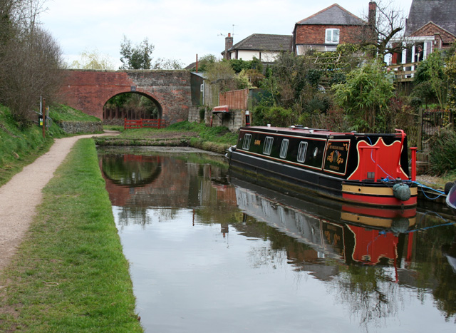 Stub of the Whitchurch Arm of the Llangollen Canal The Whitchurch Arm of the Llangollen branch of the Shropshire Union opened in 1811 and stretched from New Mills to Castle Well near the town centre. Restoration of the first 400 metres, to Chemistry Bridge (left), was completed in 1993 and now provides long-term moorings. Although the canal branch currently stops just before the bridge, the former route has been preserved from building by the creation of the Whitchurch Waterway Country Park and there are ongoing plans for extension. For more details